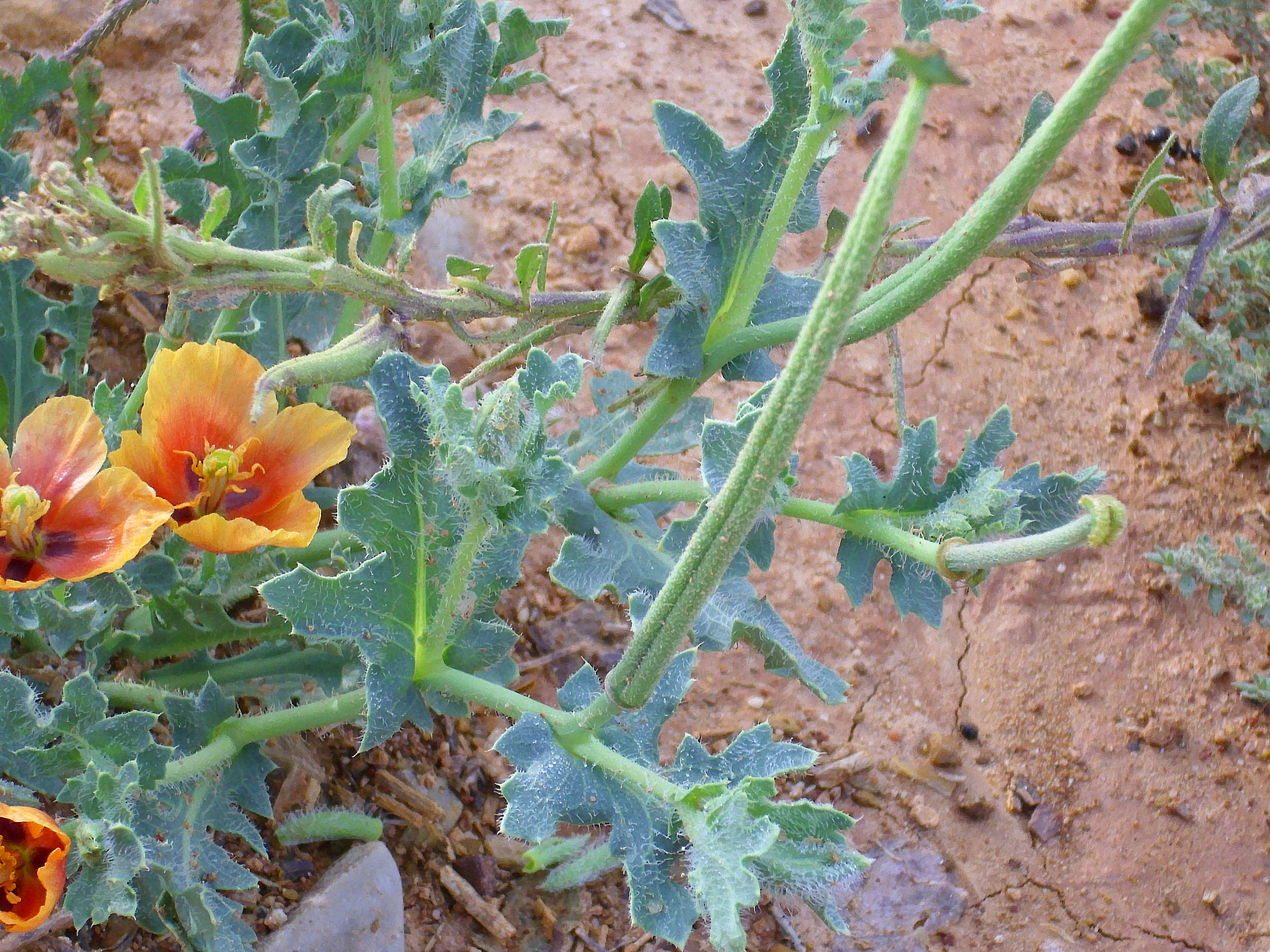 Glaucium corniculatum ssp. flowers and pod Campo de Calatrava, Spain